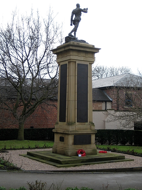 Queen Elizabeth Grammar School War memorial. This monument, within the grounds of QEGS, was built in ashlar stone in 1921-2. The front bears the inscription in bronze "THEIR NAME LIVETH FOR EVERMORE" and a bronze sword of remembrance and the school coat-of-arms within a laurel wreath. See 946829. The sides bear bronze plaques with the names of those who died in the Great War. The monument is topped by a bronze sculpture of a bugler. The monument carries a grade II listing.